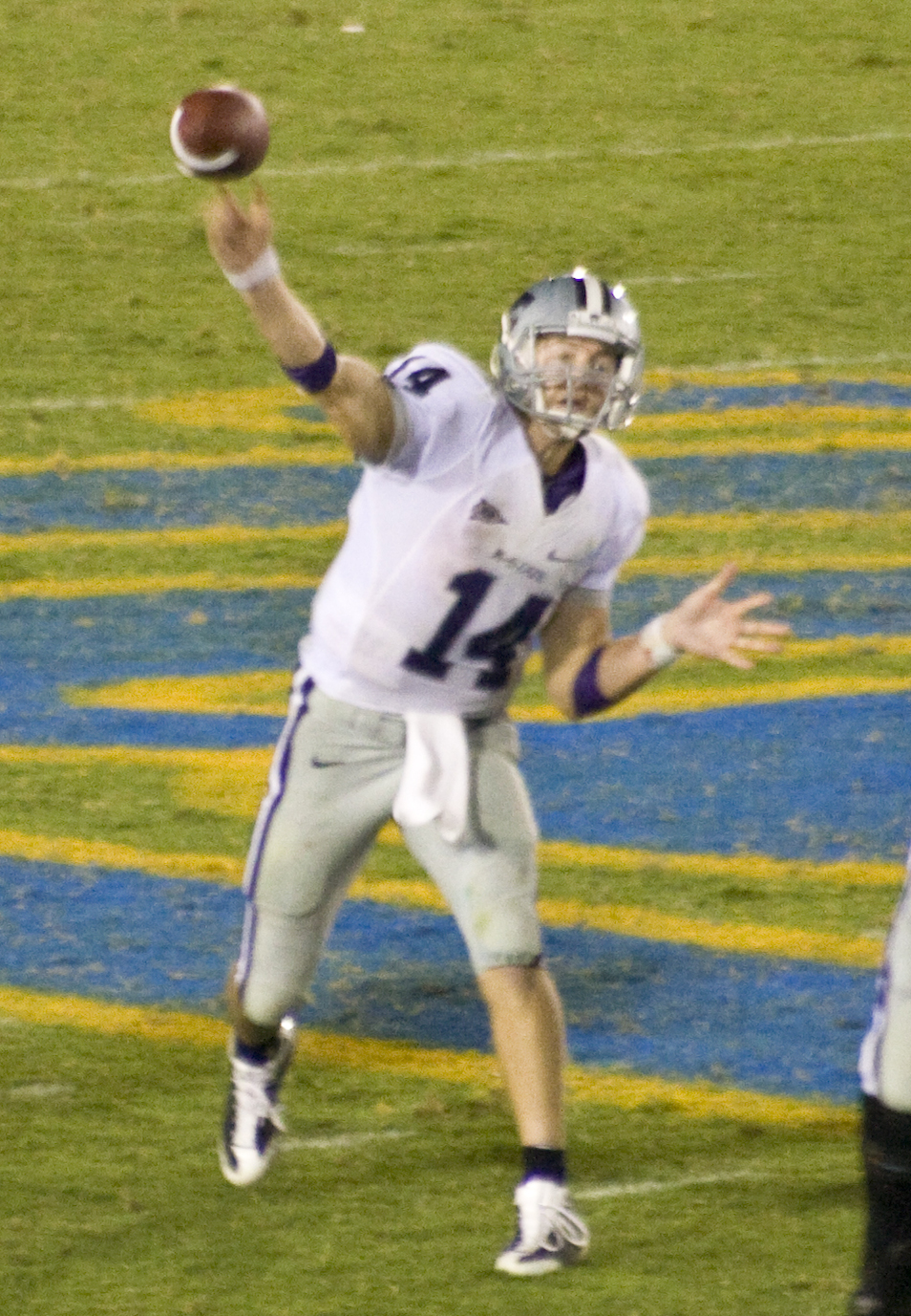 KSU quarterback Carson Coffman passing during a 2009 game against UCLA.